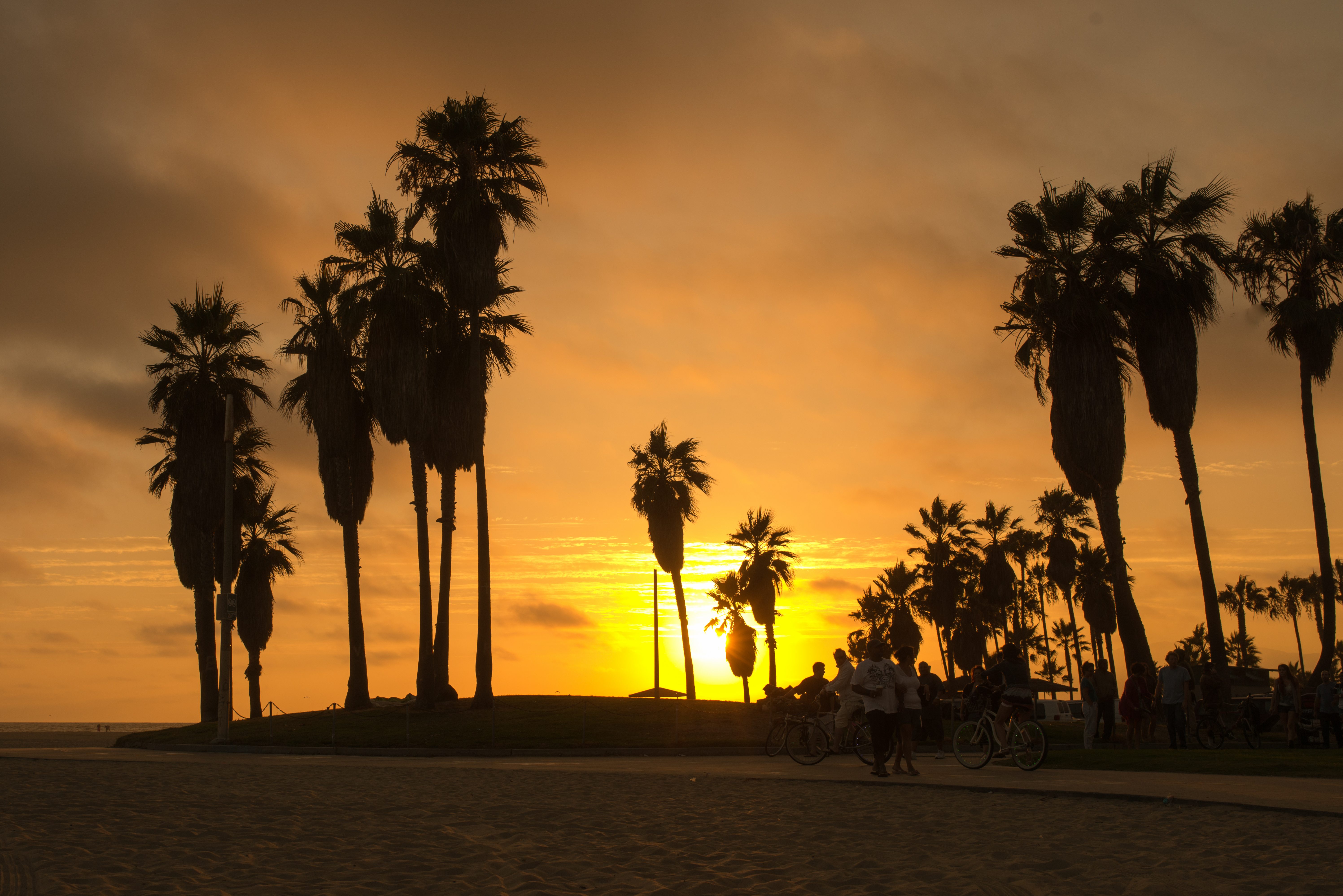 Venice Beach - L.A. California